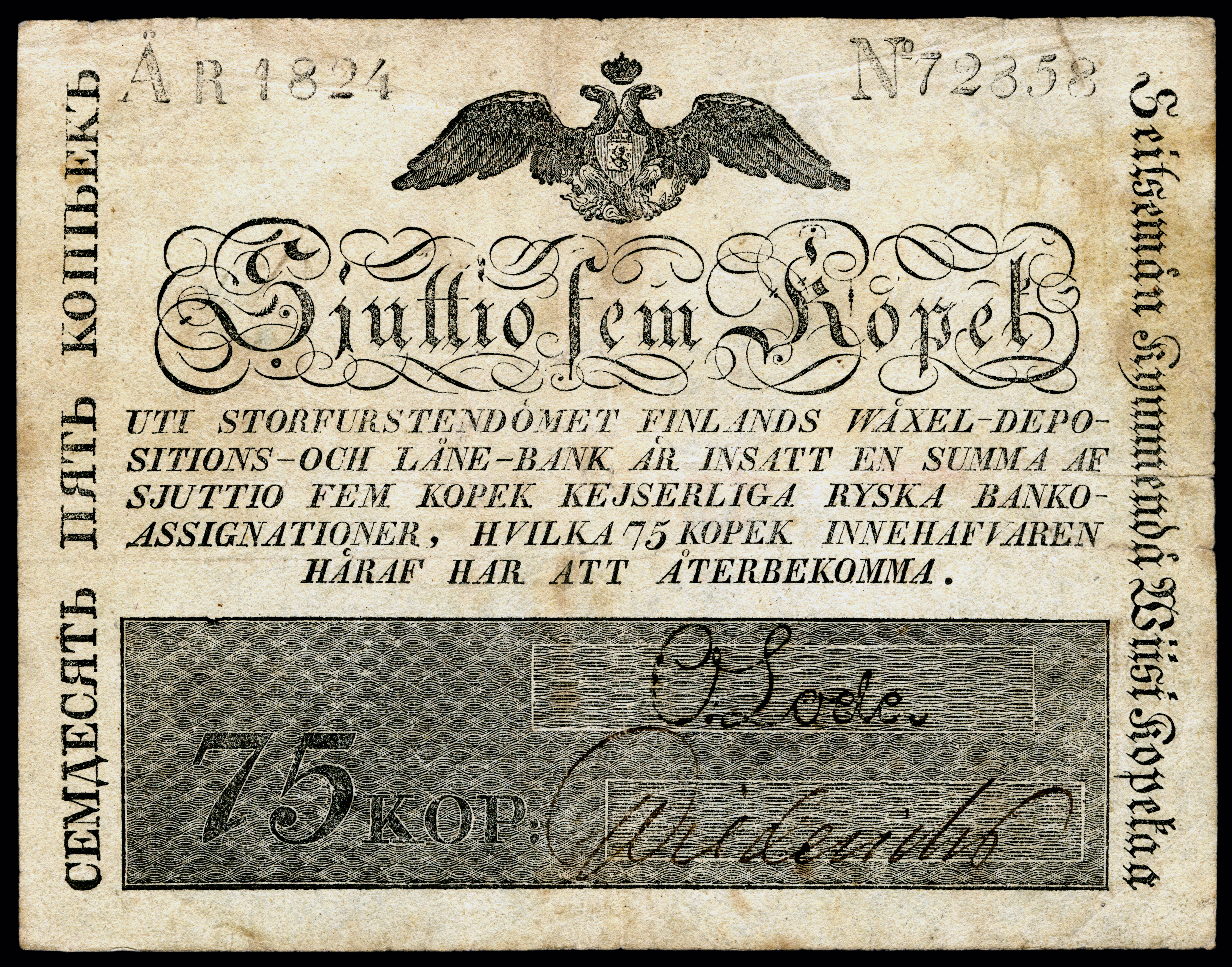 75 kopeks, Waxel-Depositions och Lane Bank (1824), Grand Duchy of Finland.